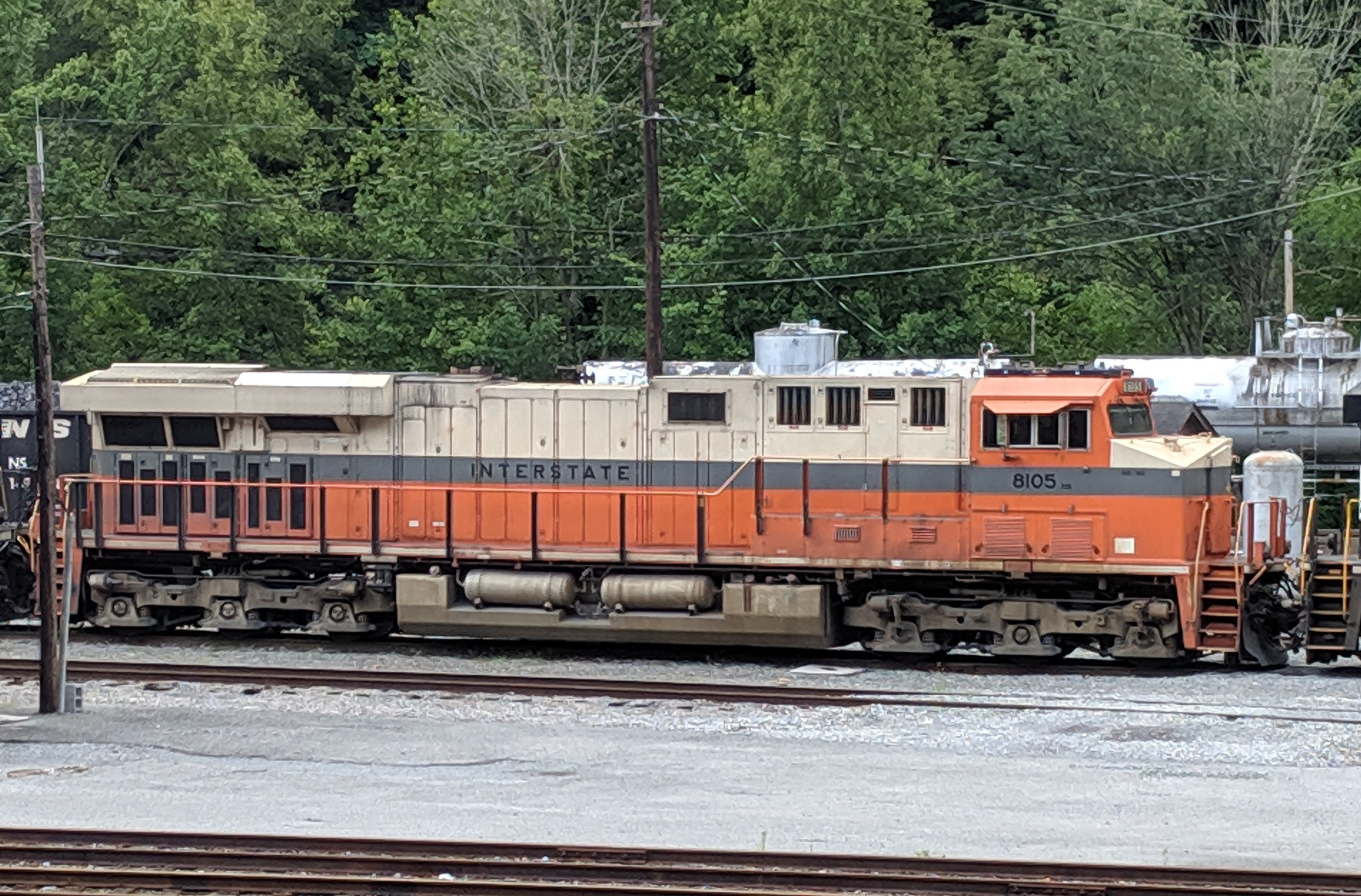 Diesel unit 8105 stationed at Weller Yard, Virginia. June 21, 2019. Photo: J.E. Slone Archive by N.P. Newberry.